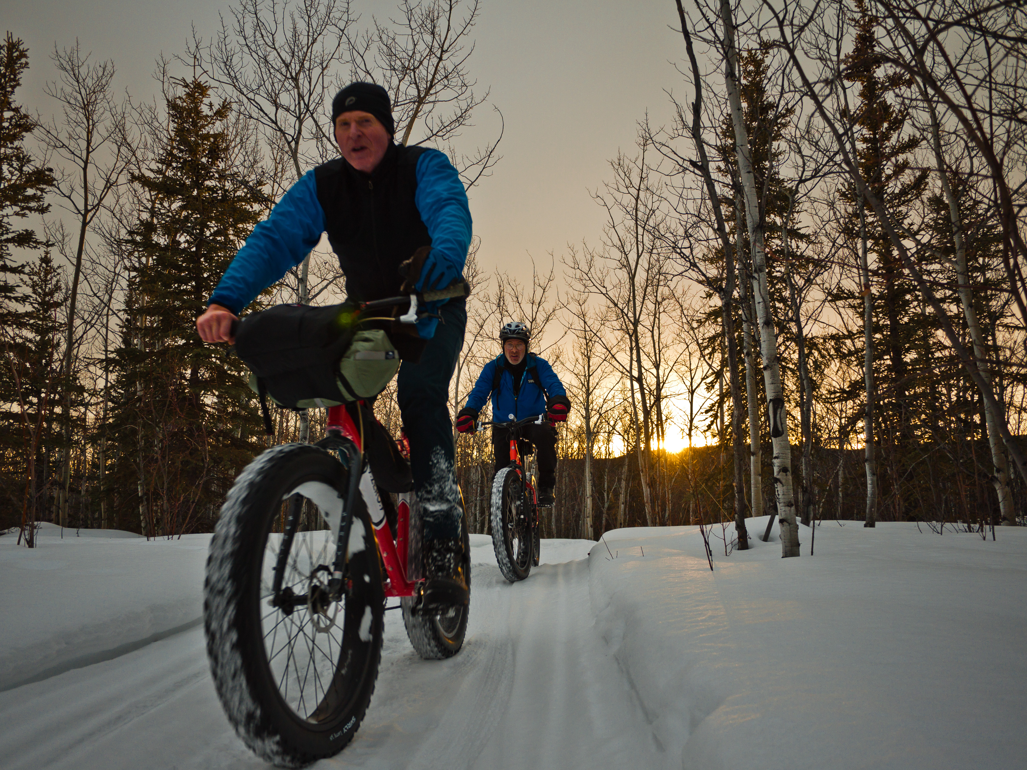 End of a Long Day